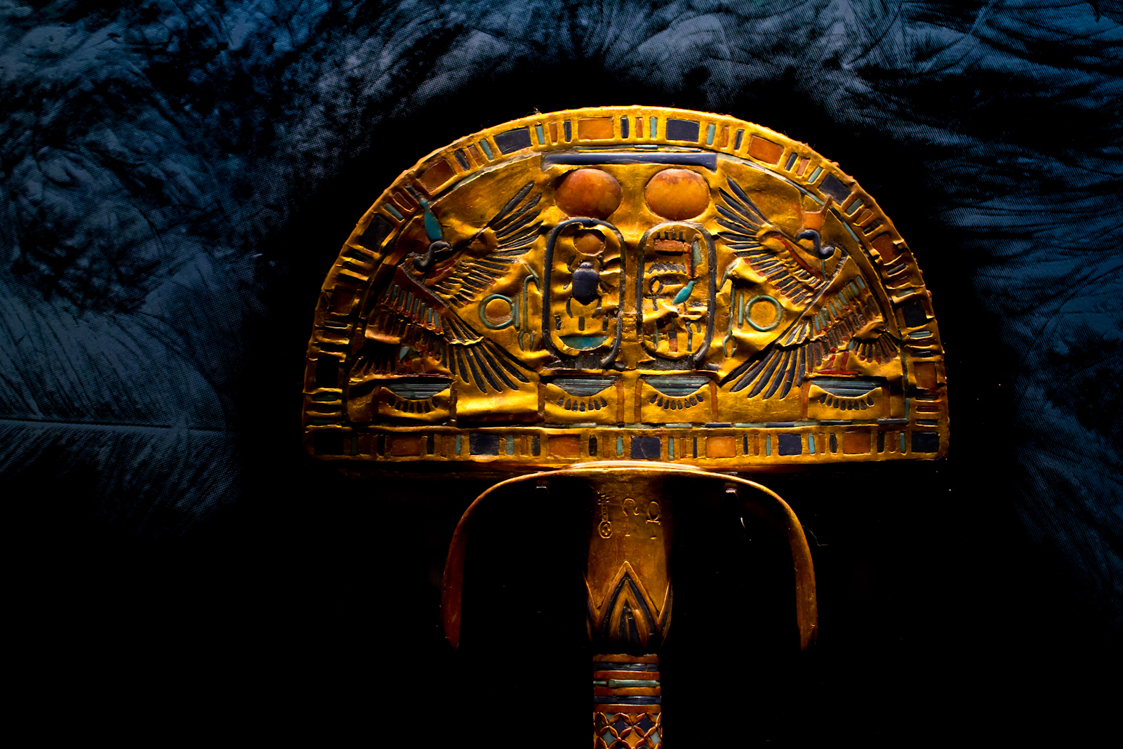 An elaboratedly gilded and faience inlaid fan found within the intact KV62 tomb of king Tutankhamun. It bears the boy king’s cartouche or royal name on its face. This object is today part of the permanent collection of the Cairo Museum of Egypt. This photo was taken at the King Tut exhibition at the Pacific Science Center in Seattle, Washington State, USA in May 2012.